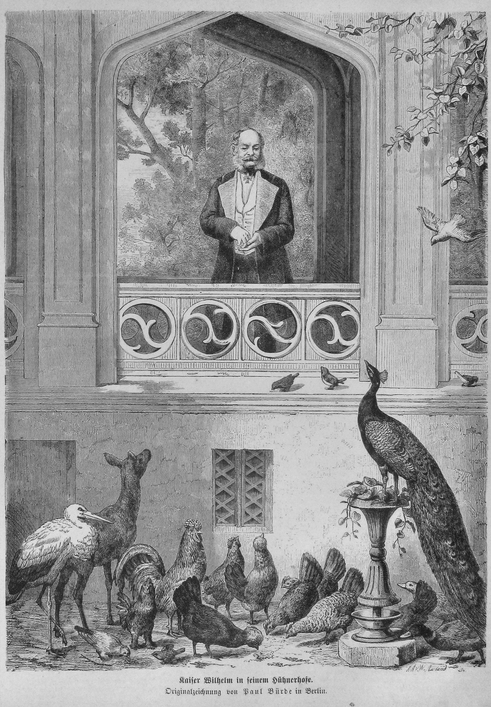 caption: "Kaiser Wilhelm in seinem Hühnerhofe. Originalzeichnung von Paul Bürde in Berlin."